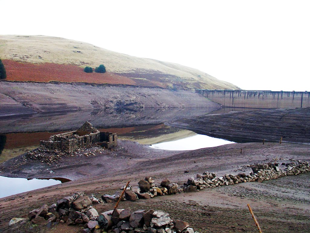 Photograph of Upper Glendevon Reservoir, Fife, Scotland. Normally flooded buildings are shown revealed during prolonged dry weather. Dam was built in 1955. Photo taken in 2003 by me 15:26, 28 October 2005 (UTC)